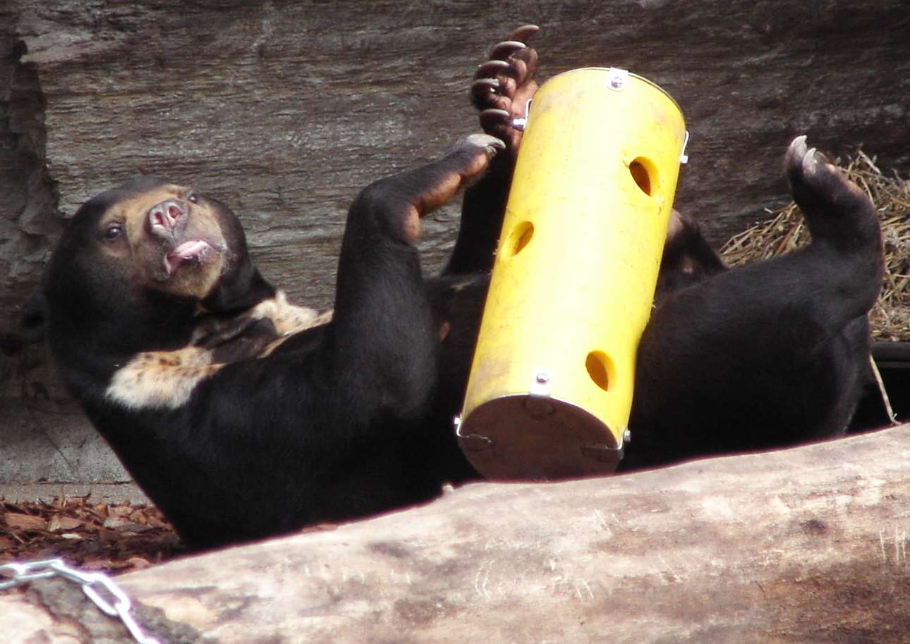 Ursus malayanus (Helarctos malayanus) getting food in Cologne Zoo, Germany.